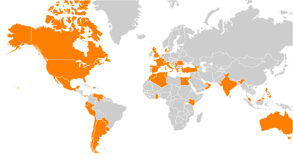 The countries in which Bijoux Terner has a presence.